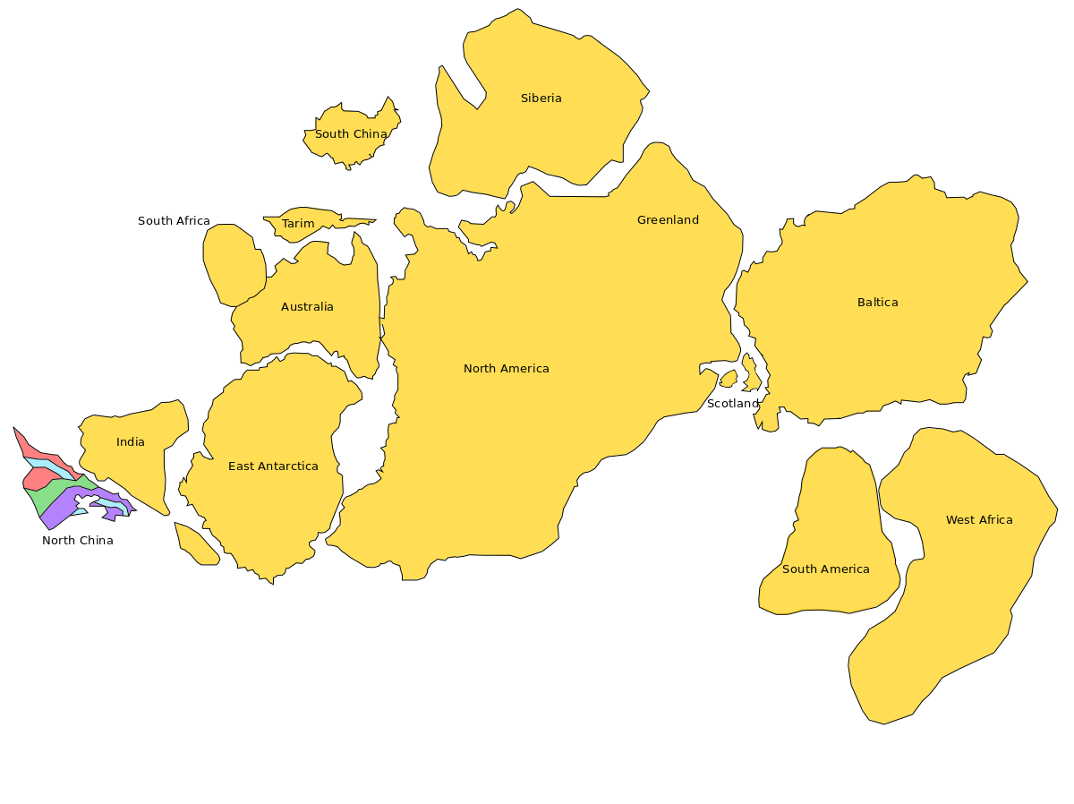 The position of the North China Craton in Columbia Supercontinent